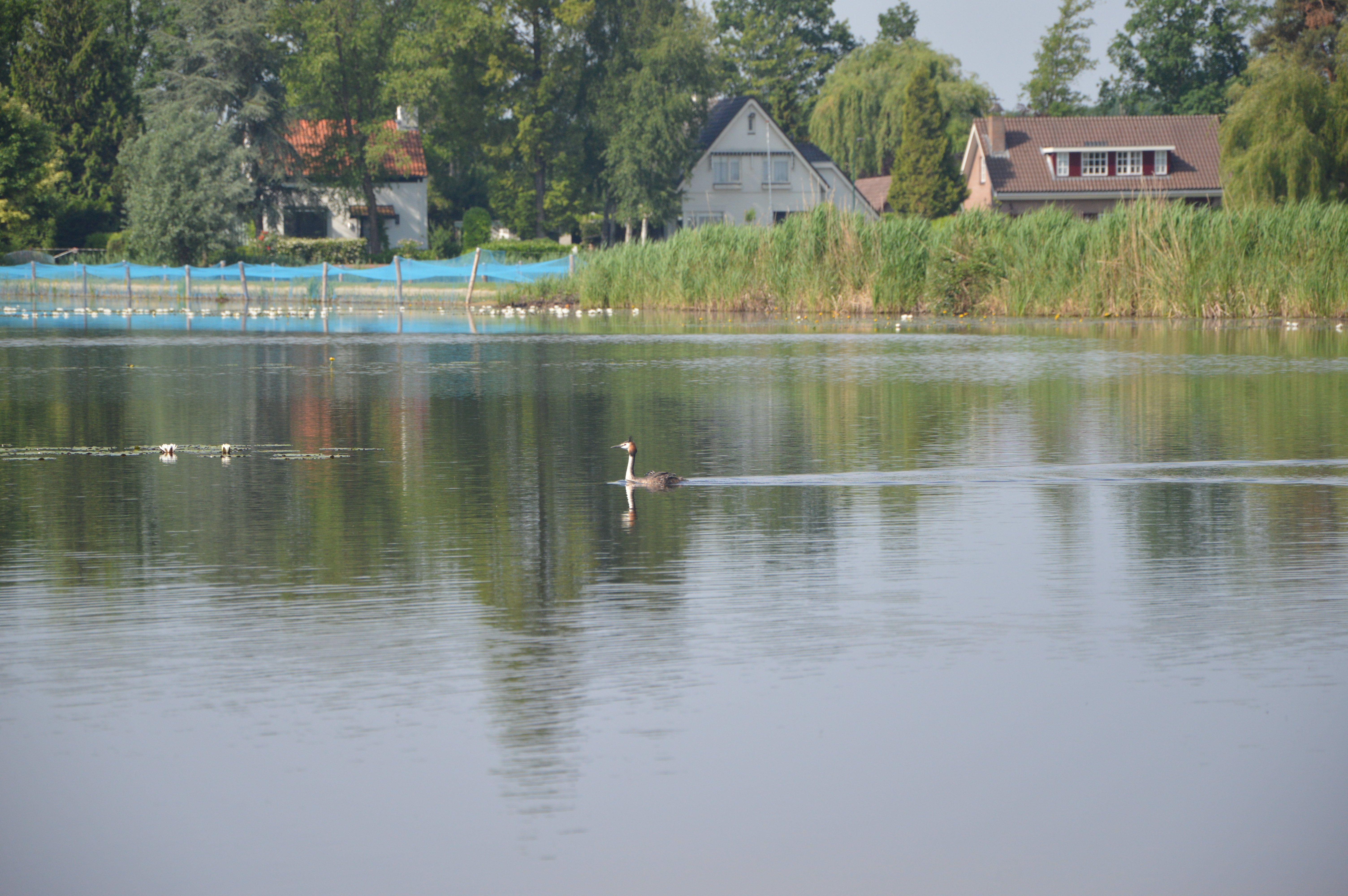 The Great Crested Grebe (Podiceps cristatus) is a welcome addition to De Molenpolder, because it is a predator of the invasive Red Crayfish (Procambarus clarkii). In the background you can see developing land being protected against herbivory.